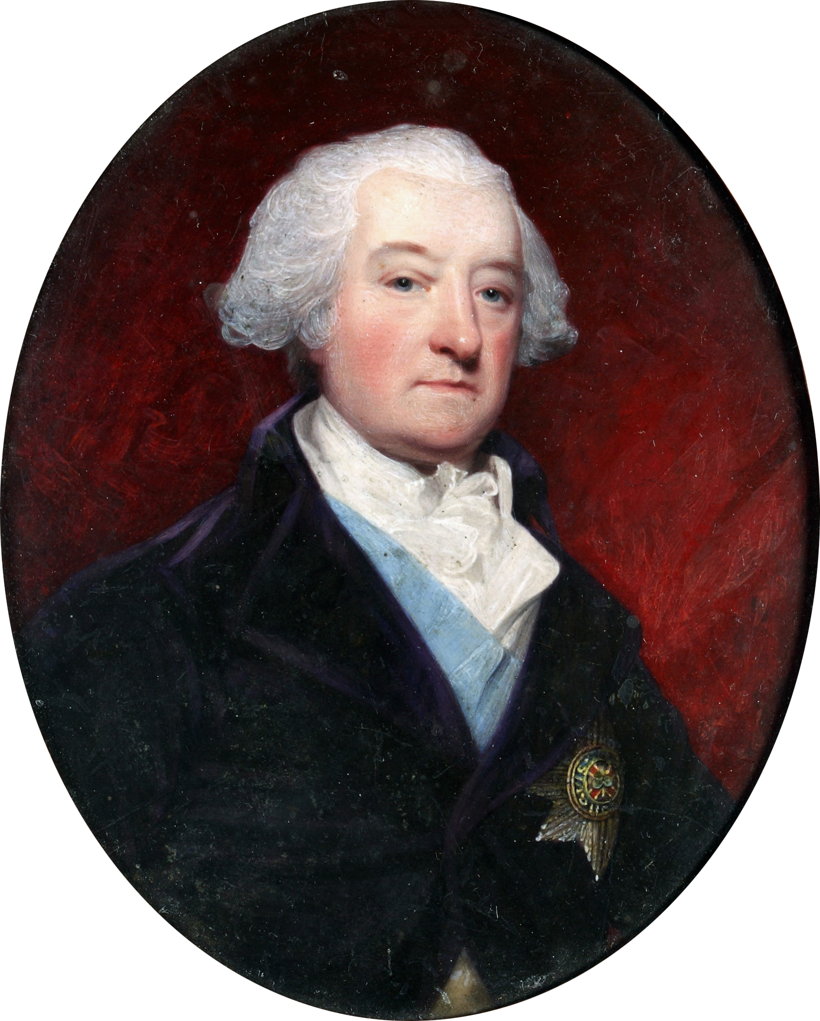 Murrough O'Brien, 1st Marquess of Thomond KP, PC (1726-1808), 5th Earl of Inchiquin (1777-1800), wearing purple coat, white waistcoat, pale blue sash and breast star of the Order of Saint Patrick signed (counter-enamel): Marquess of Thomond/ after John Hoppner/ R.A/ London/ Painted by Henry Bone/ R.A. &c &c